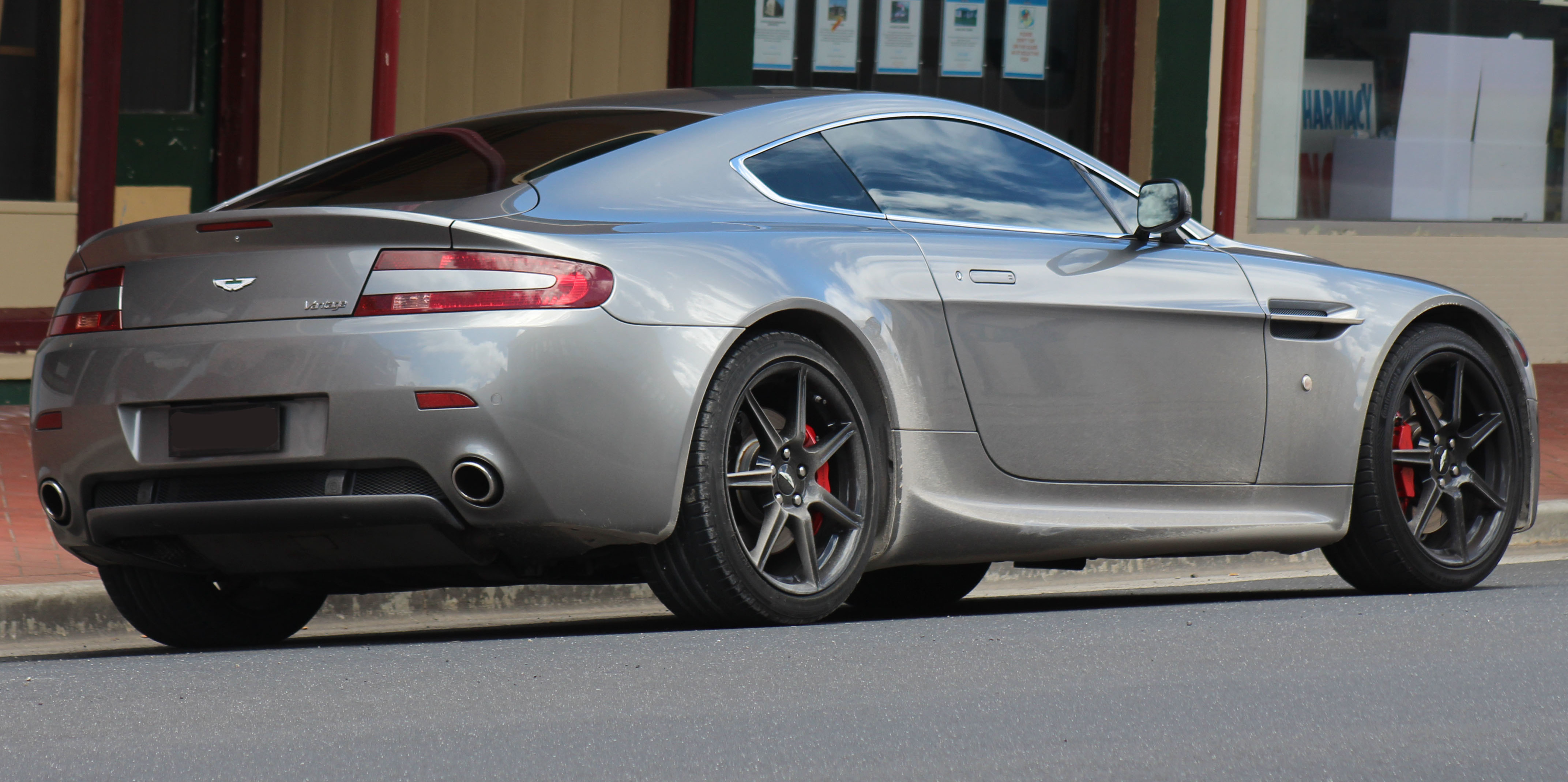 2008 Aston Martin V8 Vantage Coupe. Photographed in Zeehan Tasmania. Registration Plate: ASTIN1